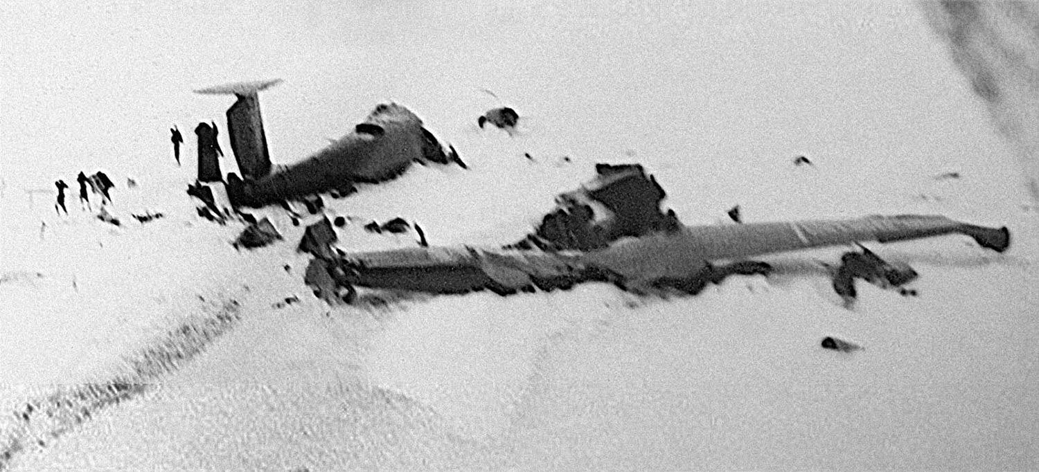 The wreckage and survivors of the 30 December 1946 crash of a United States Navy Martin PBM-5 Mariner (BuNo 59098, callsign "George 1") on Thurston Island, Antarctica, photographed from another U.S. Navy PBM Mariner during search and rescue operations on 11 January 1947. Both aircraft were stationed aboard the seaplane tender USS Pine Island (AV-12). Barely visible is the writing on the right wing "LOPEZ HENDERSIN WILLIAMS DEAD".